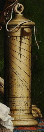 Holbein Ambassadeurs detail cadran de berger